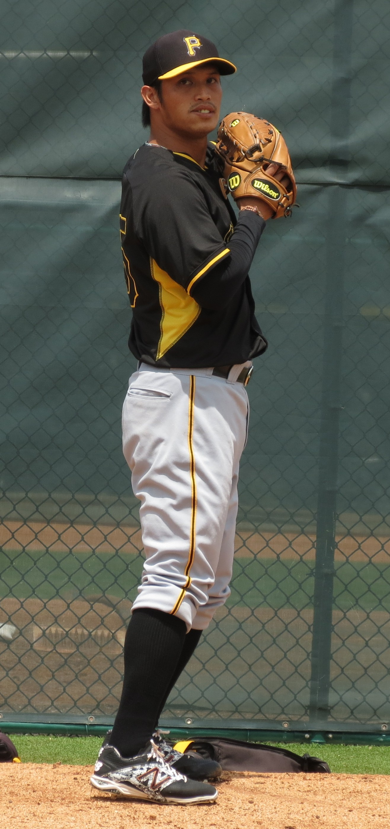 Yao-Hsun Yang pitching for the Pittsburgh Pirates in 2014